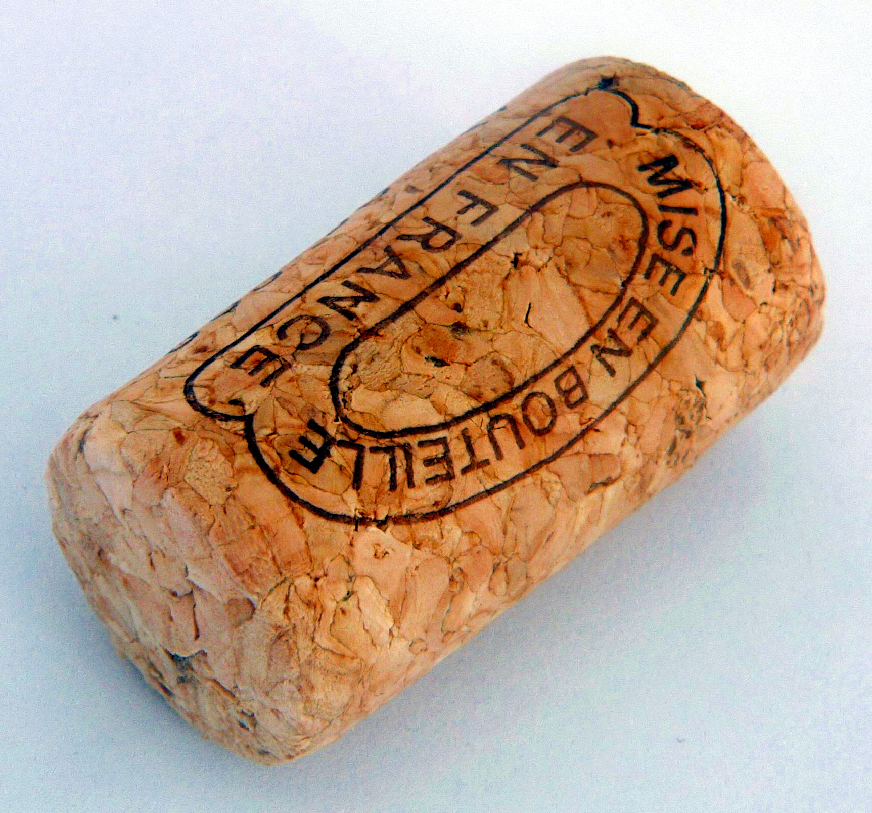 A cork stopper of a wine bottle (made from composite cork); says "bottled in France"